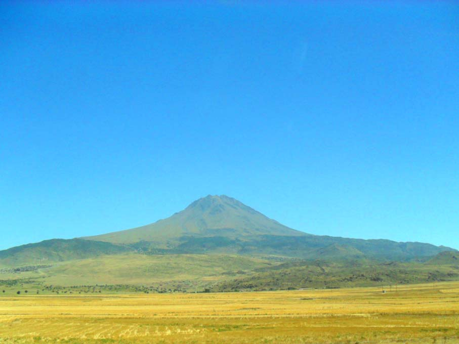 Hasandağ